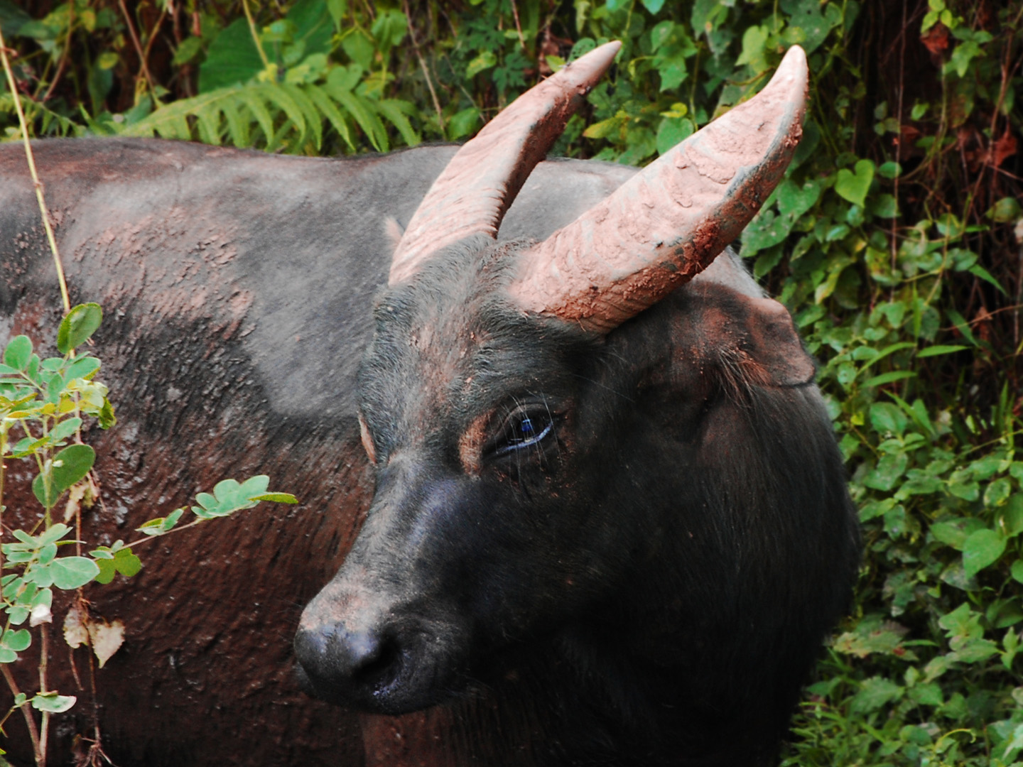 A close-up shot of a tamaraw (Bubalus mindorensis) on the island of Mindoro in the Philippines. Taken at the Mount Iglit-Baco National Park in September 2012 by Gregg Yan.Tagalog: Isang malapitang pagtanaw sa isang tamaraw (Bubalus mindorensis) sa Mindoro. Kinuha sa Mount Iglit-Baco National Park noong Setyembre 2012 ni Gregg Yan.